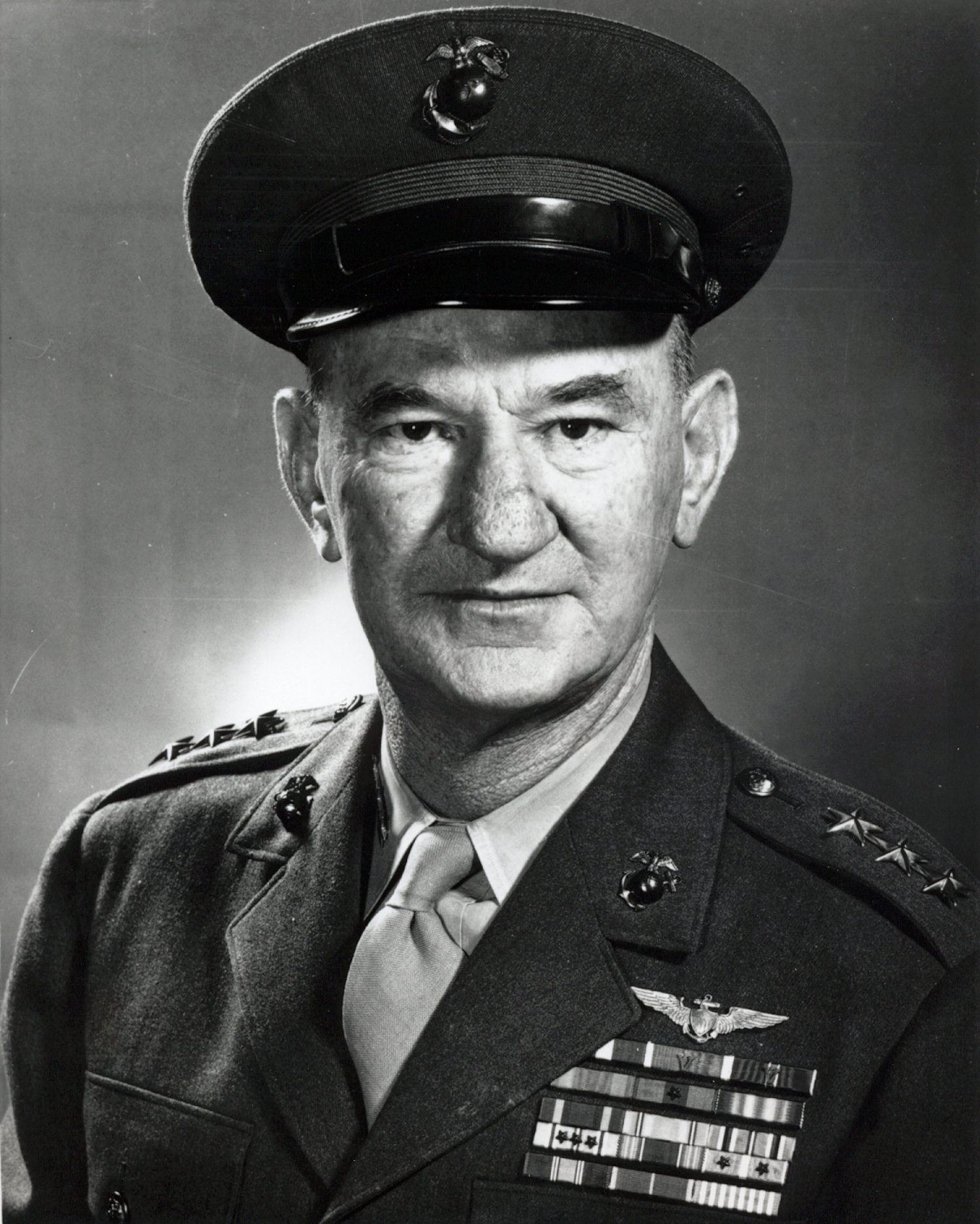 Lt. Gen. William O. Brice, USMC (1898-1972)